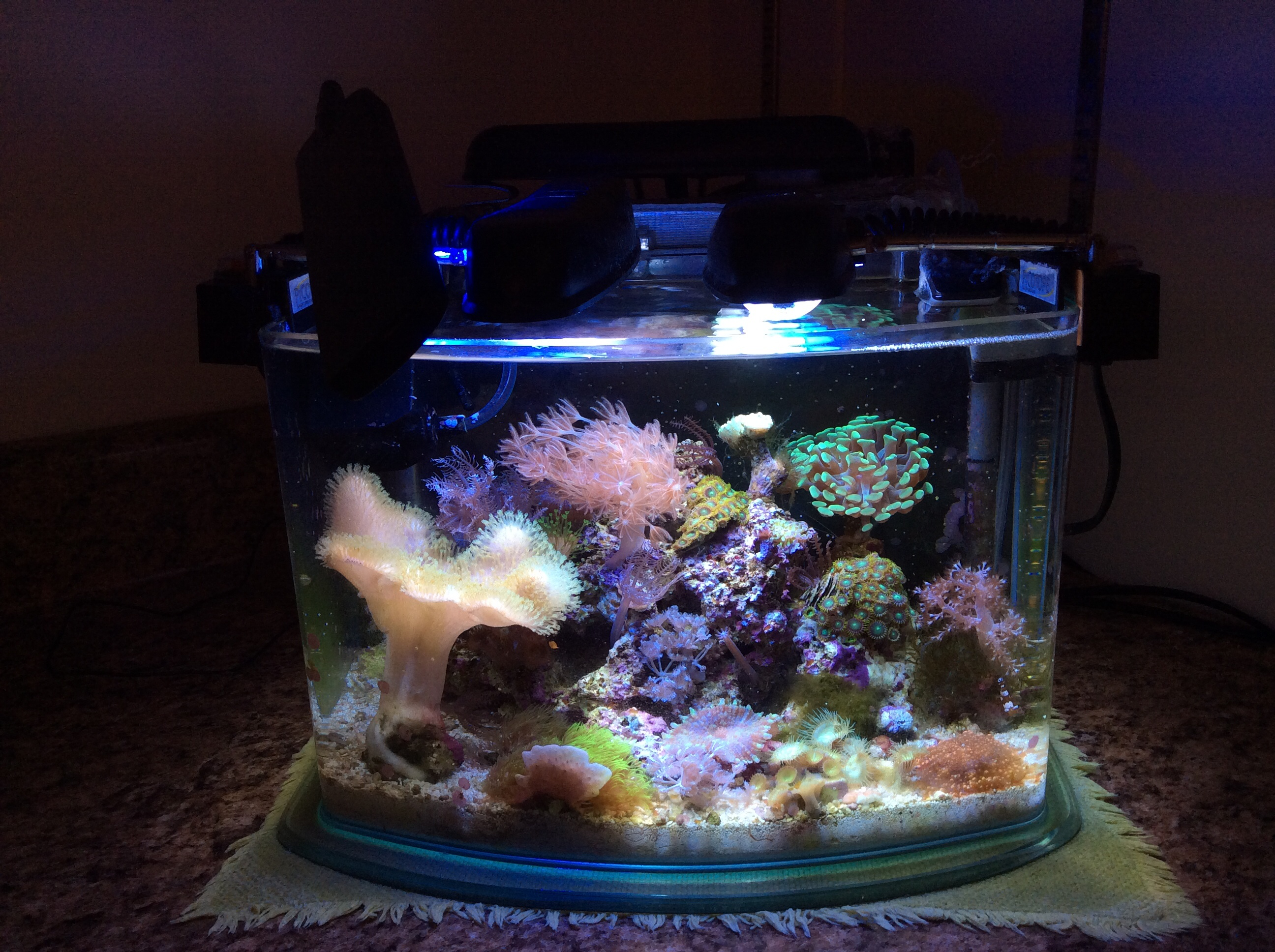 3 gallon (11,36 litre) reef aquarium. Photo taken May 12, 2014.